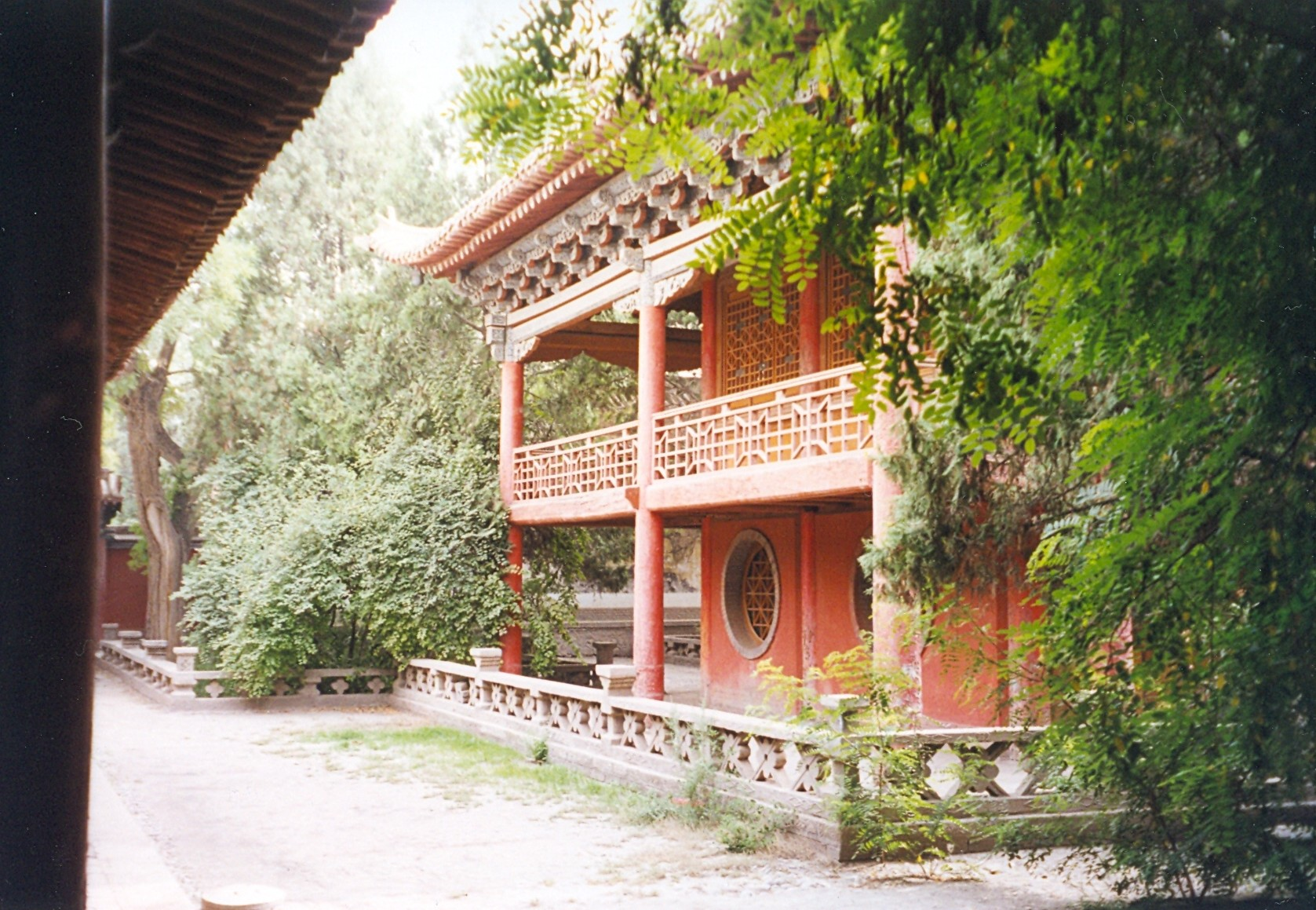 Wen Miao temple, Wuwei, Gansu, China.